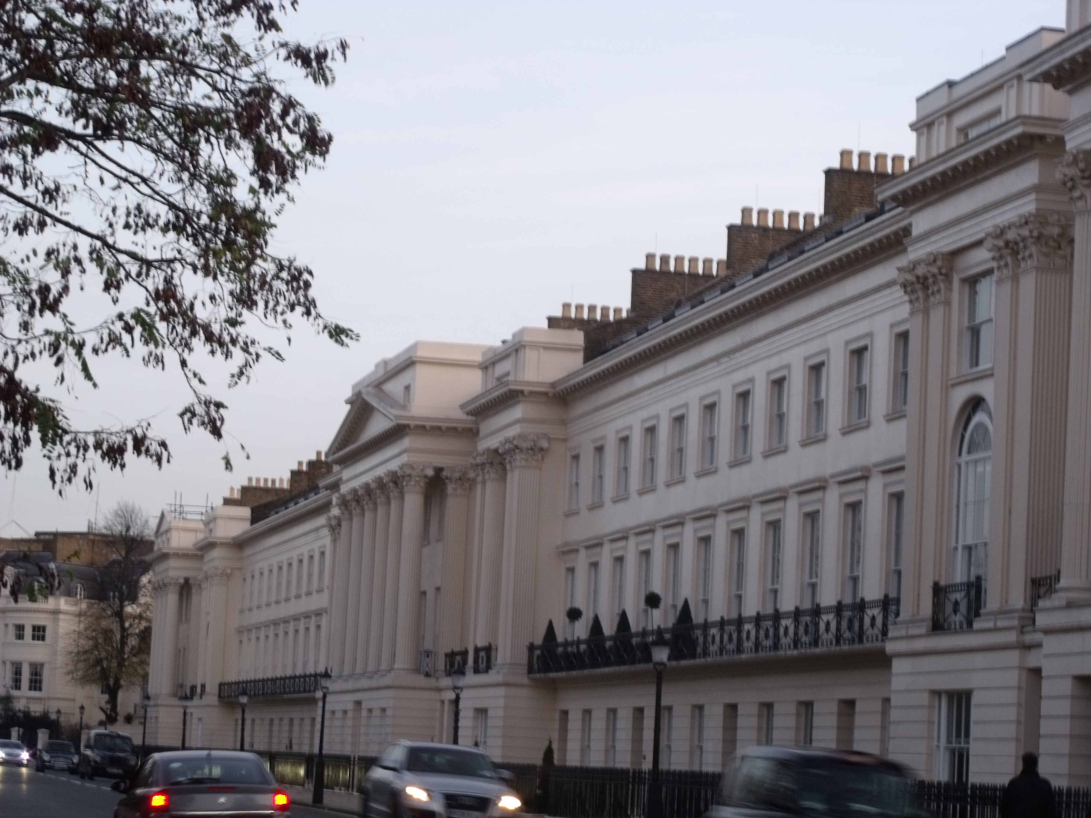 1-21 Cornwall Terrace, London, Grade I listed.